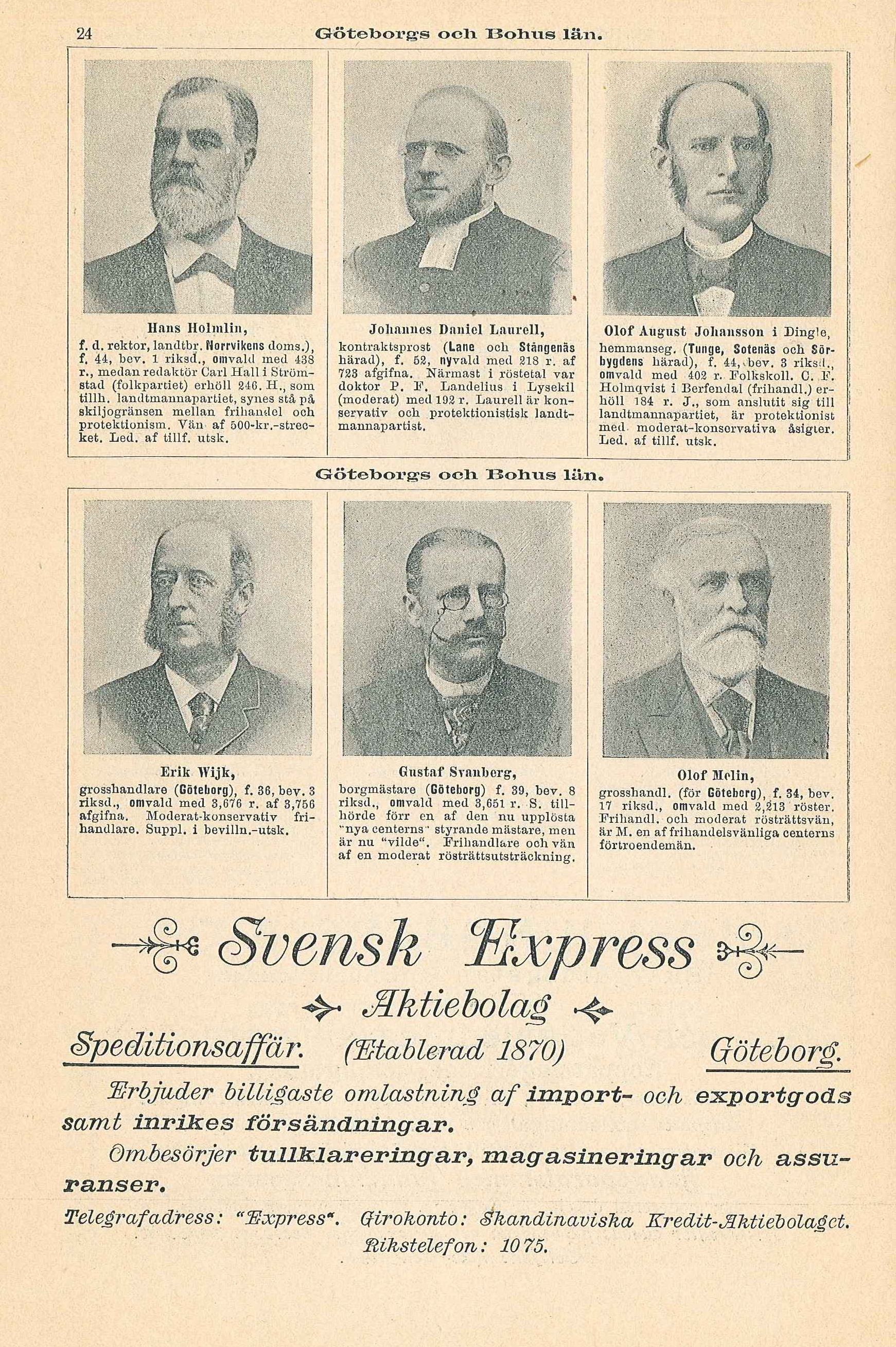 Page 24 of an album featuring portraits of all the members of the second chamber of the Swedish parliament (Sveriges riksdag) elected in 1897. This page featuring parts of the members representing the county of Göteborg och Bohus.